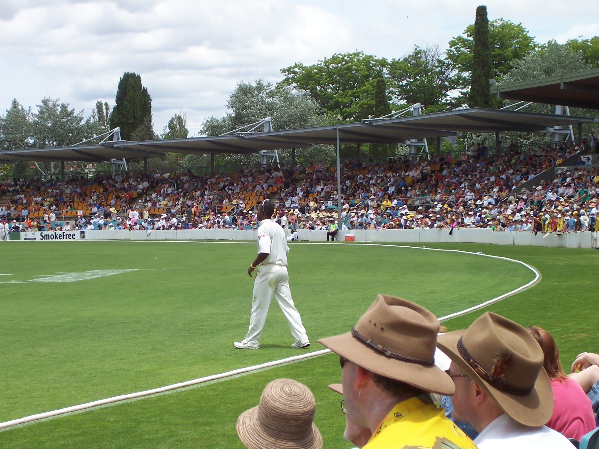 Prime Minister's XI cricket match at Manuka Oval